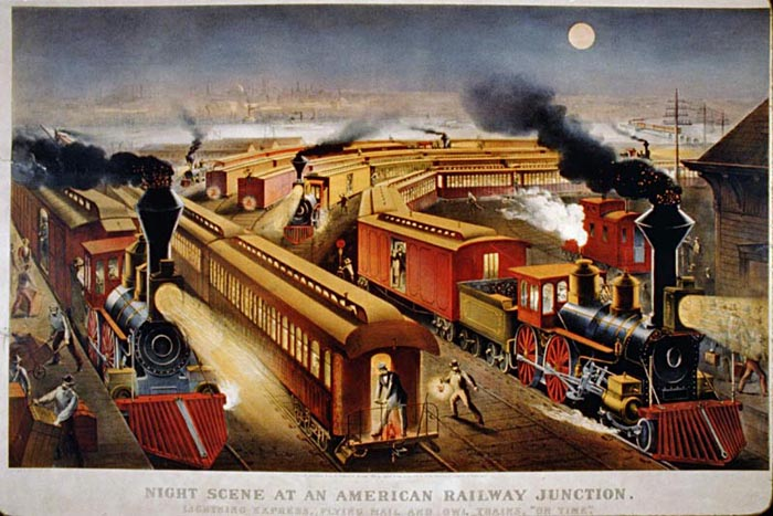 A nightime scene of a US railroad junction, "Fast-mail" train in center